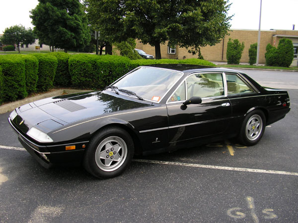 Ferrari 412 (1985–1989)